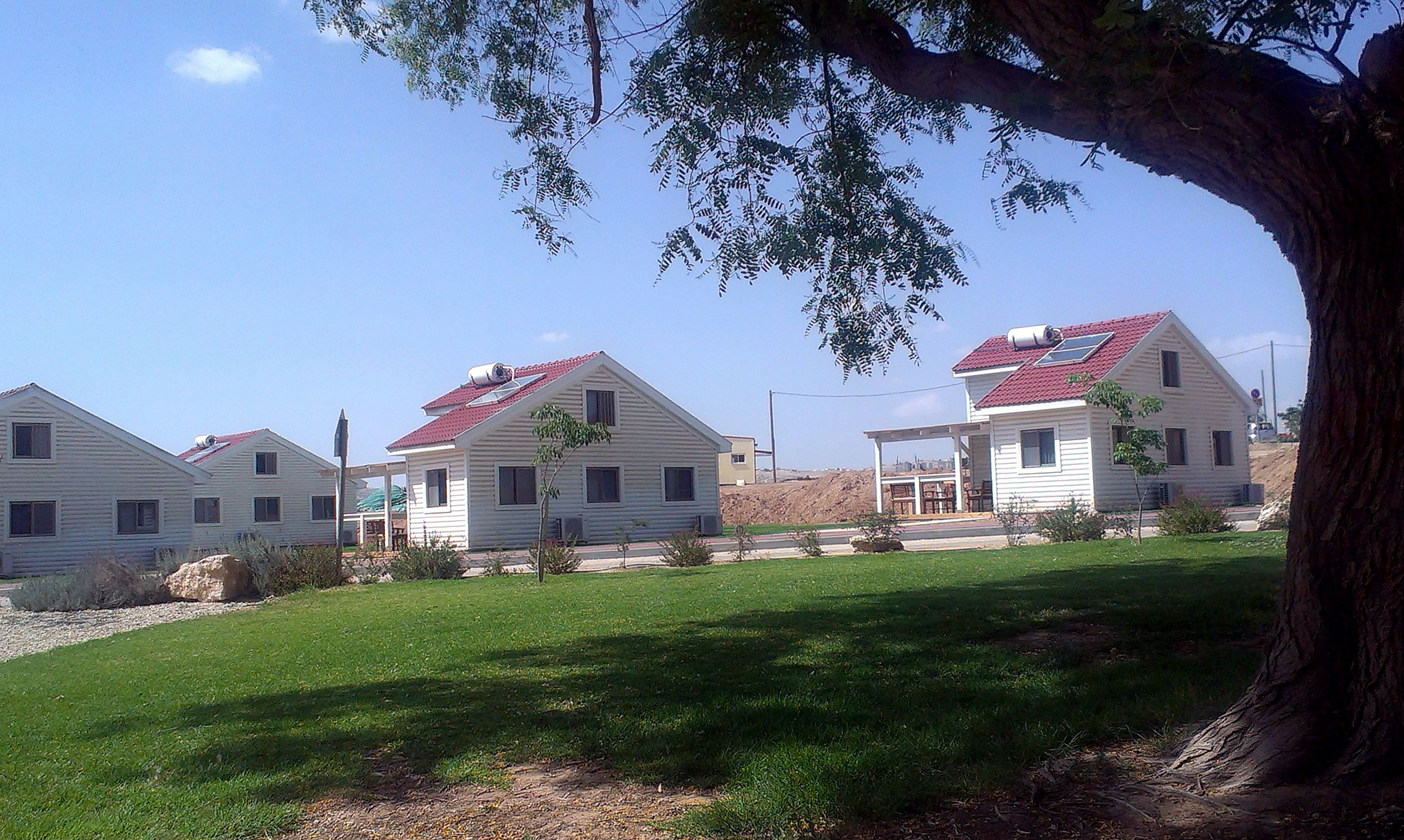 Kramim is a kibbutz in southern Israel founded in 1980